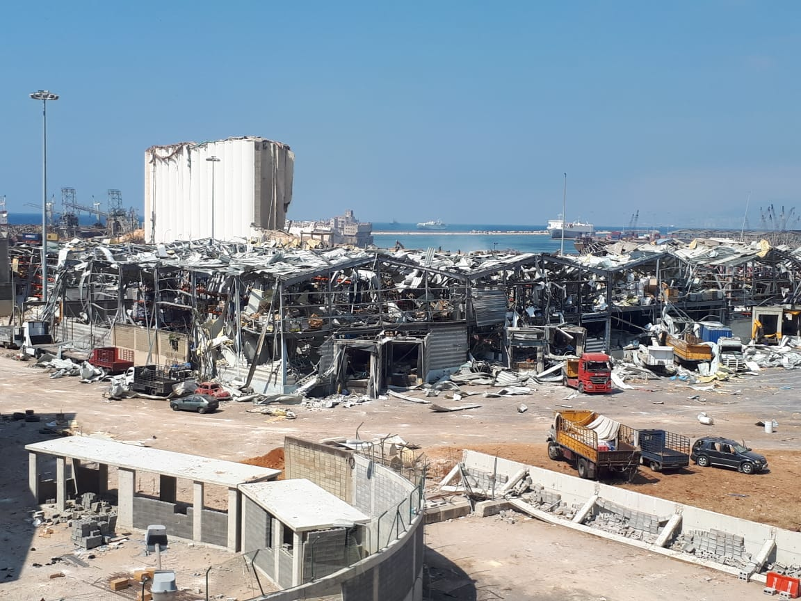 Aftermath of the 2020 Beirut explosions